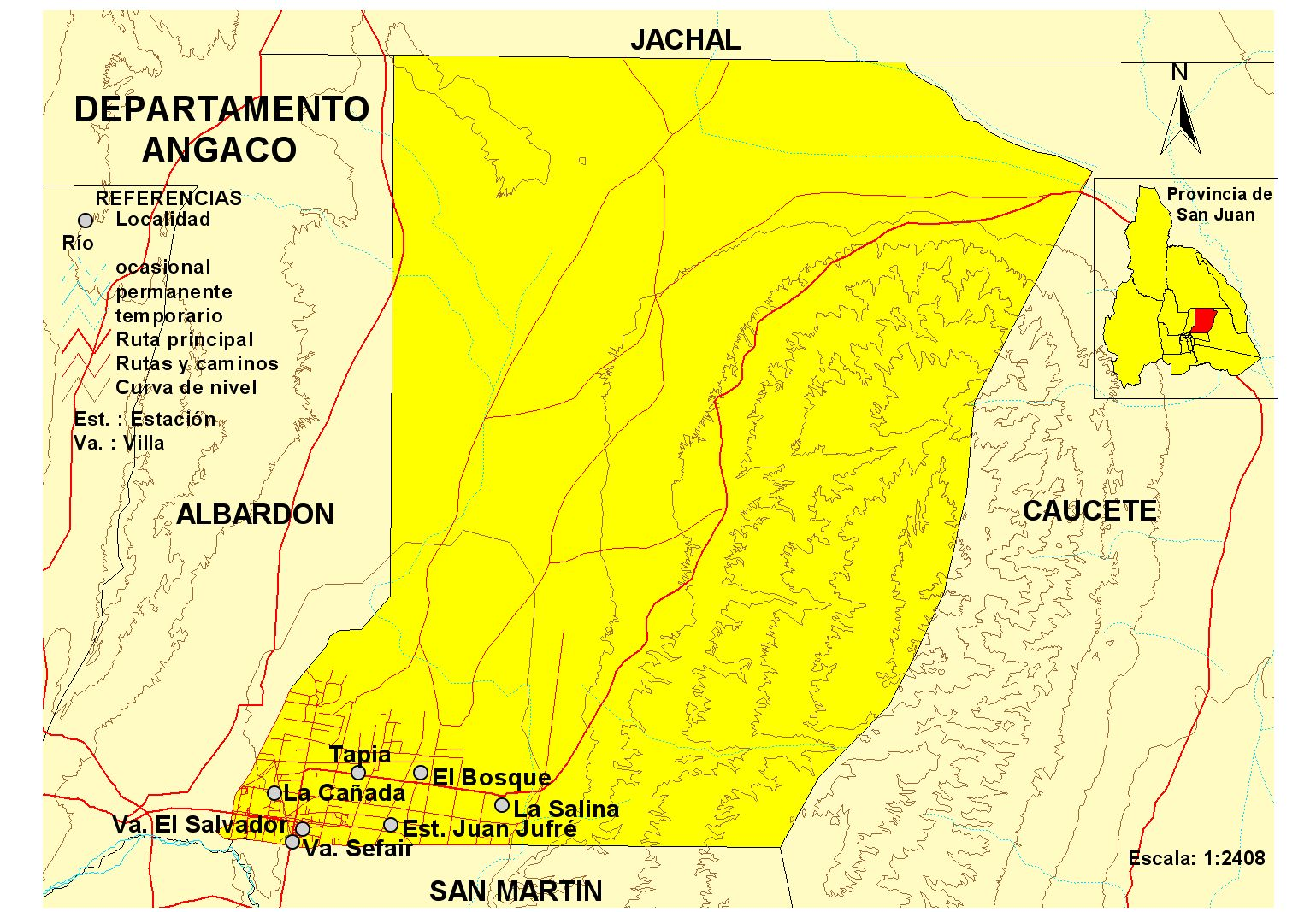 Map of Angaco Department, San Juan Province, Argentina.